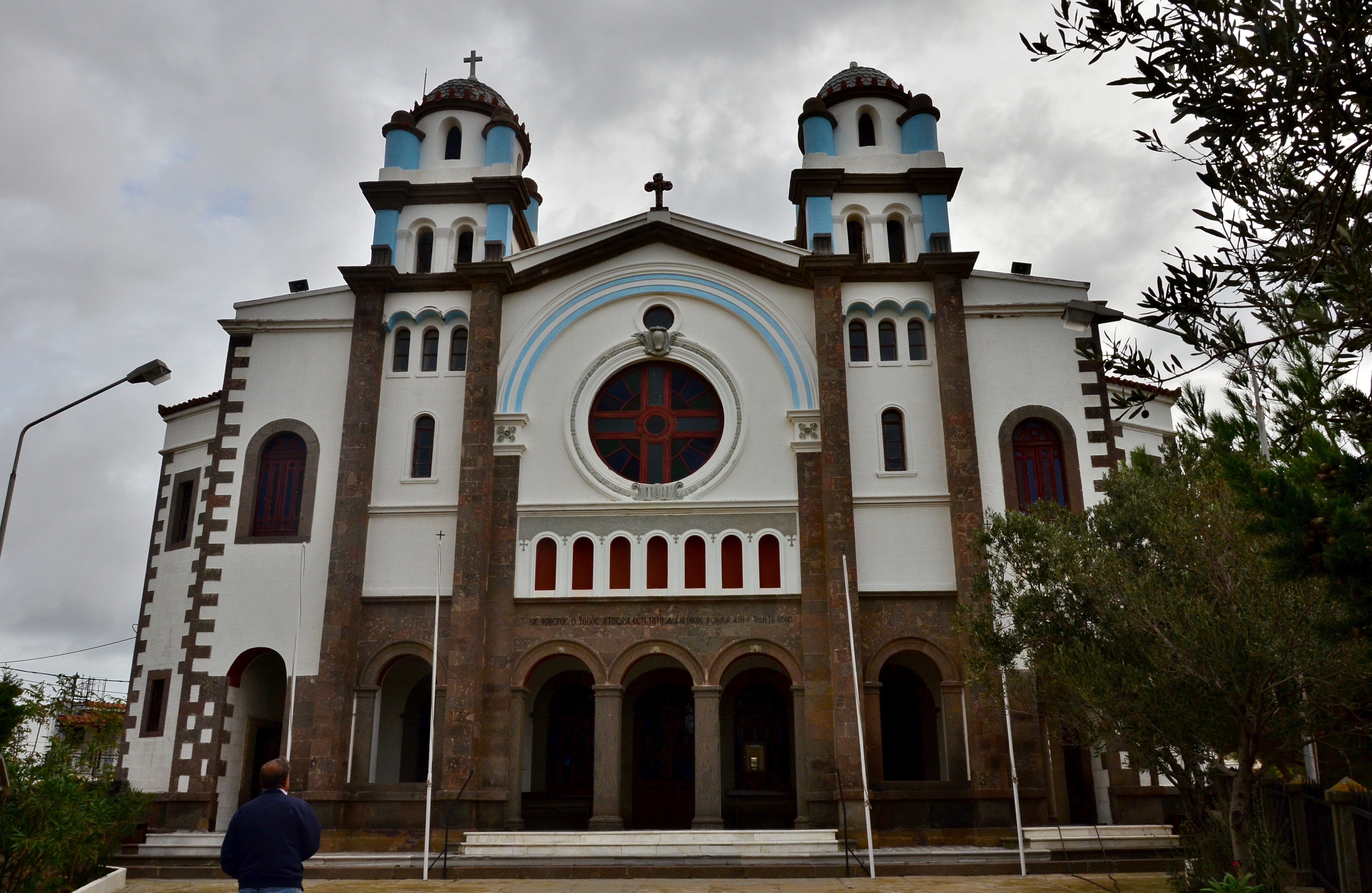 Evaggelistria church in Moudros, Lemnos Greece